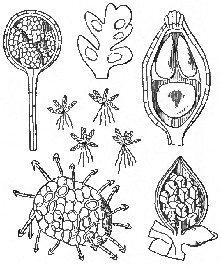 Fig. 88. Azolla caroliniana from the second edition of An Illustrated Flora of the Northern United States, Canada and the British Possessions (New York, 1913)